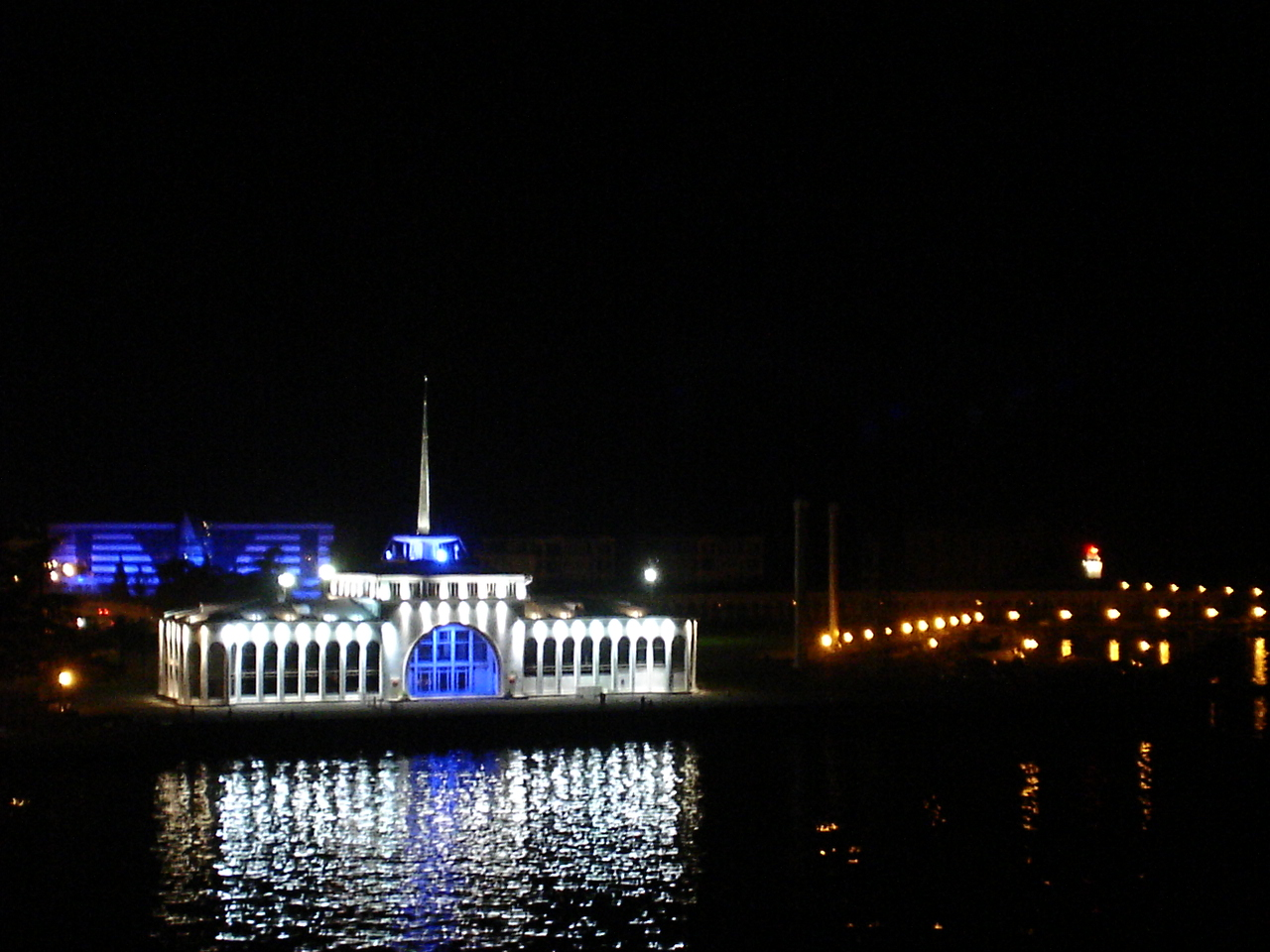 Port Authority in Batumi